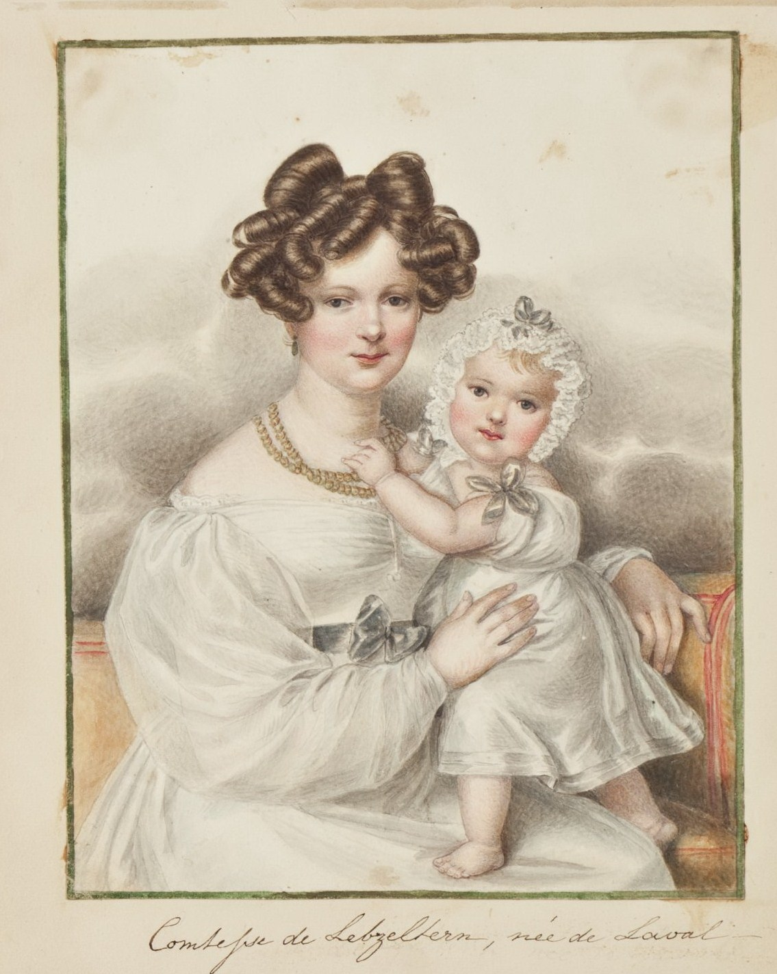 The Middleton Watercolor Album consists of a collection of 45 watercolor portraits bound in leather covers with neo-gothic embossing and a gilt bronze clasp in the same style. The album relates to the Middleton family of South Carolina, from which it descended until Hillwood purchased it in 2004. Williams Middleton—who was secretary to his father, Henry Middleton, the American minister to St. Petersburg from 1820 to 1830—assembled this album. The artist of many of the watercolors, most of which are unsigned, is likely Middleton's sister, Maria Henrietta, who studied painting during her years in St. Petersburg with her governess, Madame Mathes, who also painted miniatures. Two watercolors, including this portrait of the Countess Bobrinsky, are signed by the well-known Russian watercolorist Petr Sokolov. The portraits are of Russians and people in the foreign community who were close associates of the Middleton family. Their portraits provide an extraordinary commentary on the fashion and hairstyles of the 1820s.